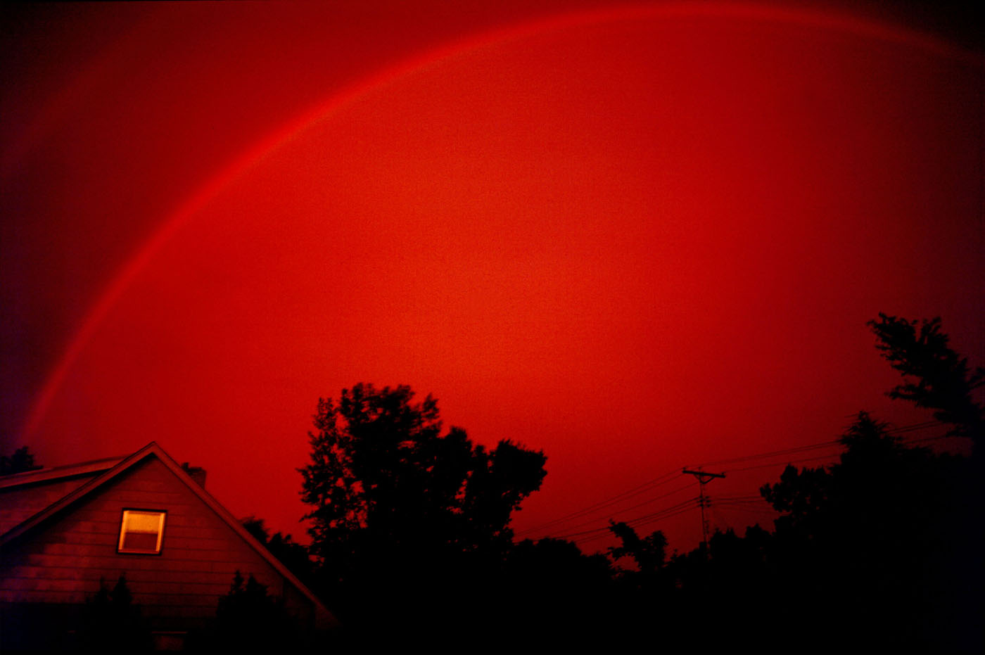 Monochrome rainbow during a thunderstorm at dusk. Shot was taken in a Minneapolis suburb